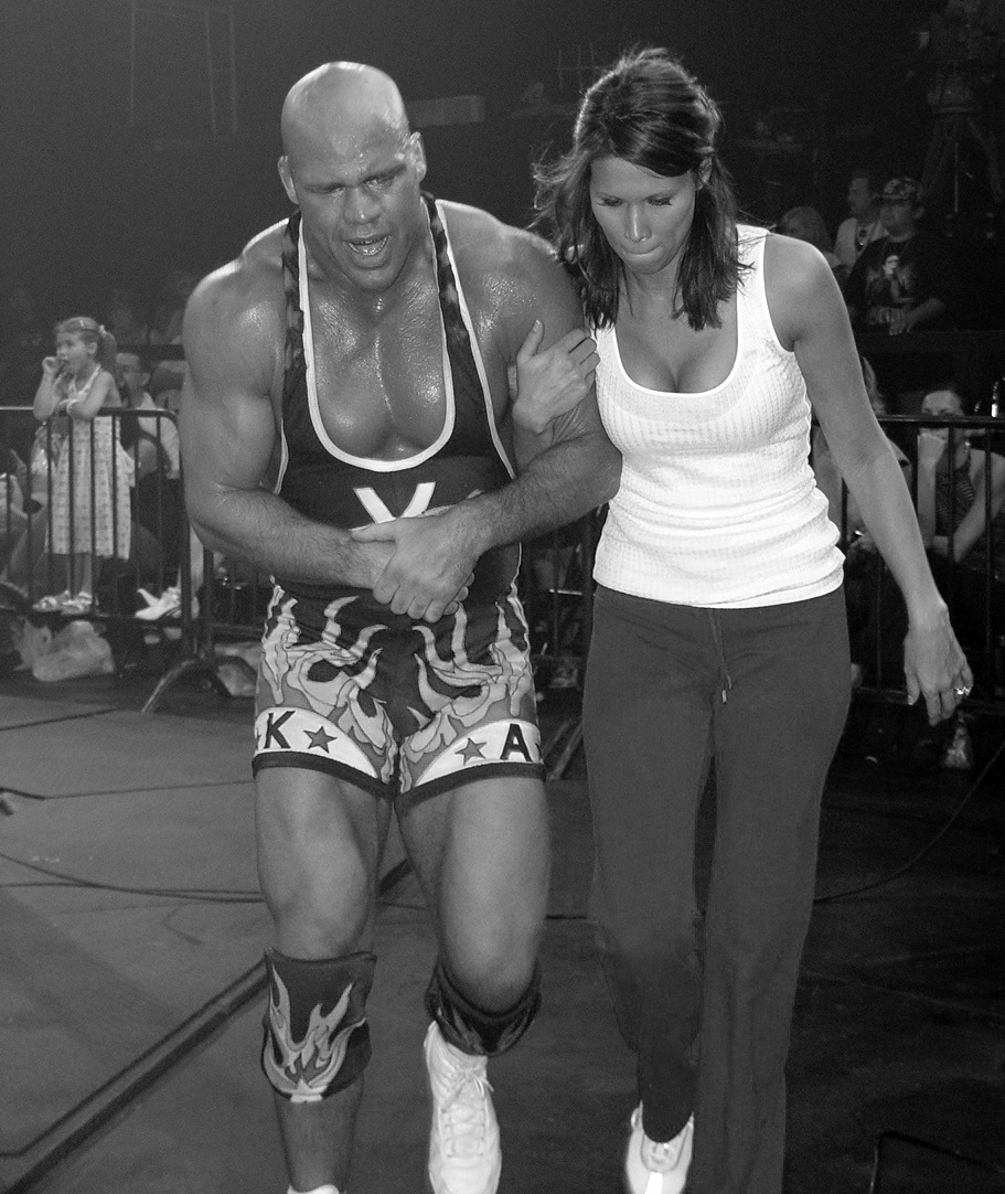 Kurt and Karen Angle with Kyra Angle watching at ringside. PHOTO BY ROB BEUKEMA